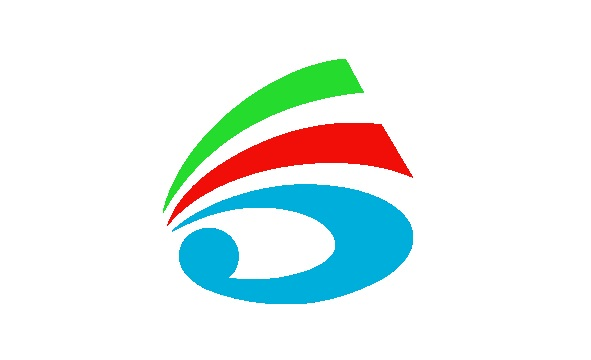 Flag of Saiki Oita